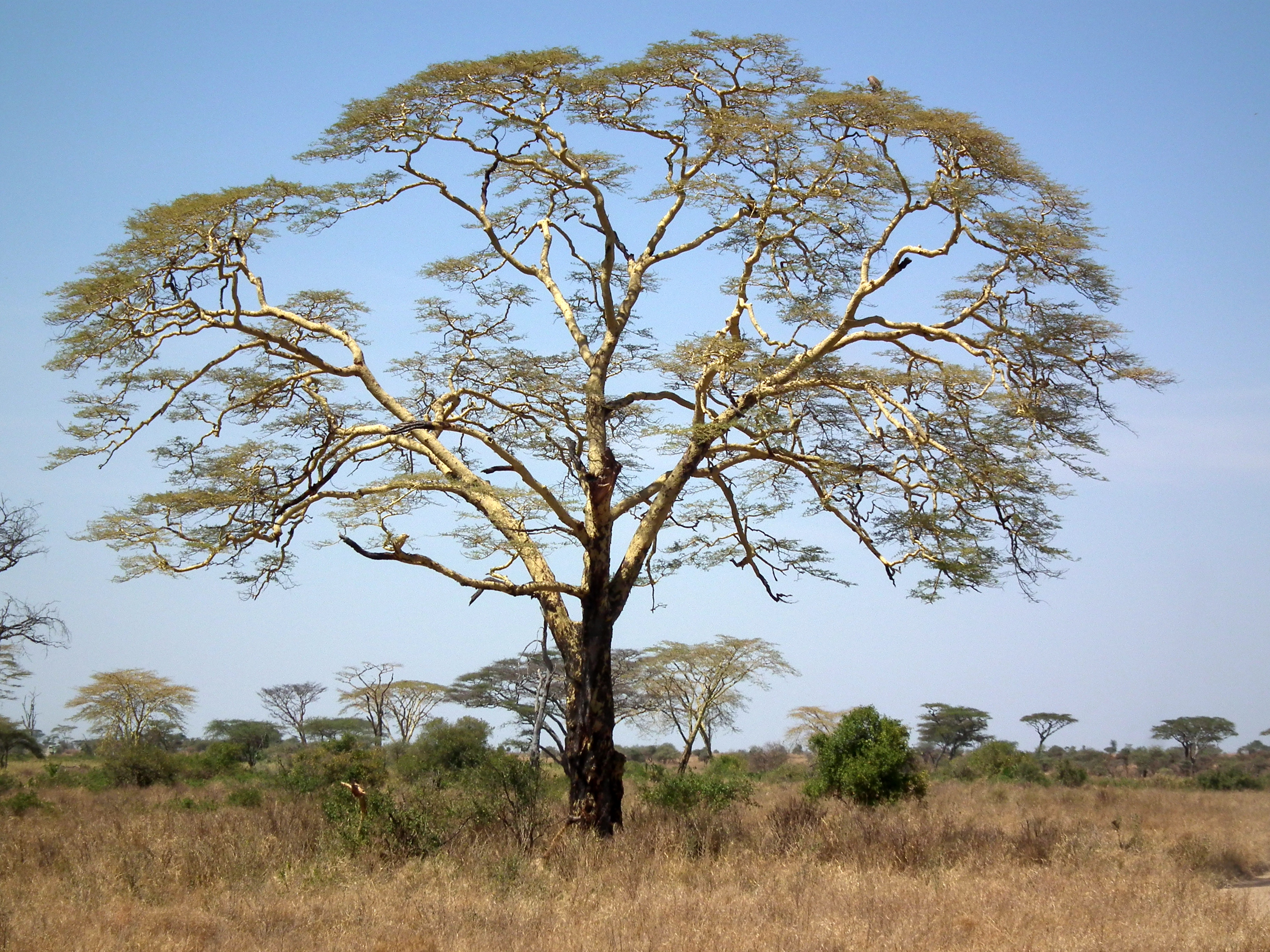 Acacia xanthophloea or fever tree in Tanzania. The tree needs plenty of water, so people associated its presence with malaria.